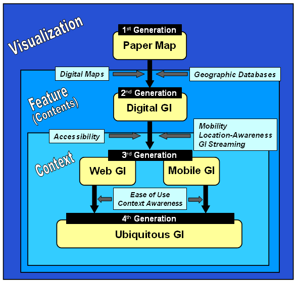 Diagram showing the evolution of geographic information (image derived from :Hong, Sang-Ki, 2008. Ubiquitous Geographic Information (UBGI) and address standards. ISO Workshop on address standards: Considering the issues related to an international address standard. 25 May 2008. Copenhagen, Denmark.)